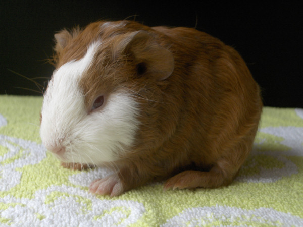 Baby guinea pig approximately one week old